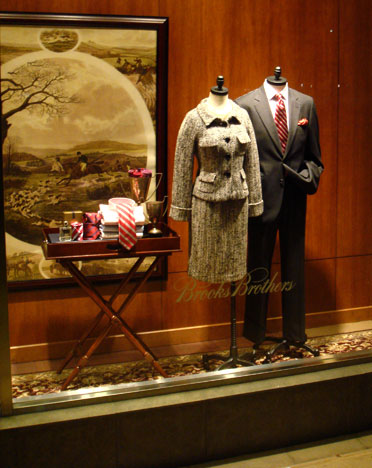 A picture of a display in Brooks Brothers